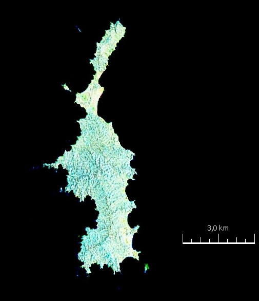 Isla Lobos de Tiera, nearshore island of Peru